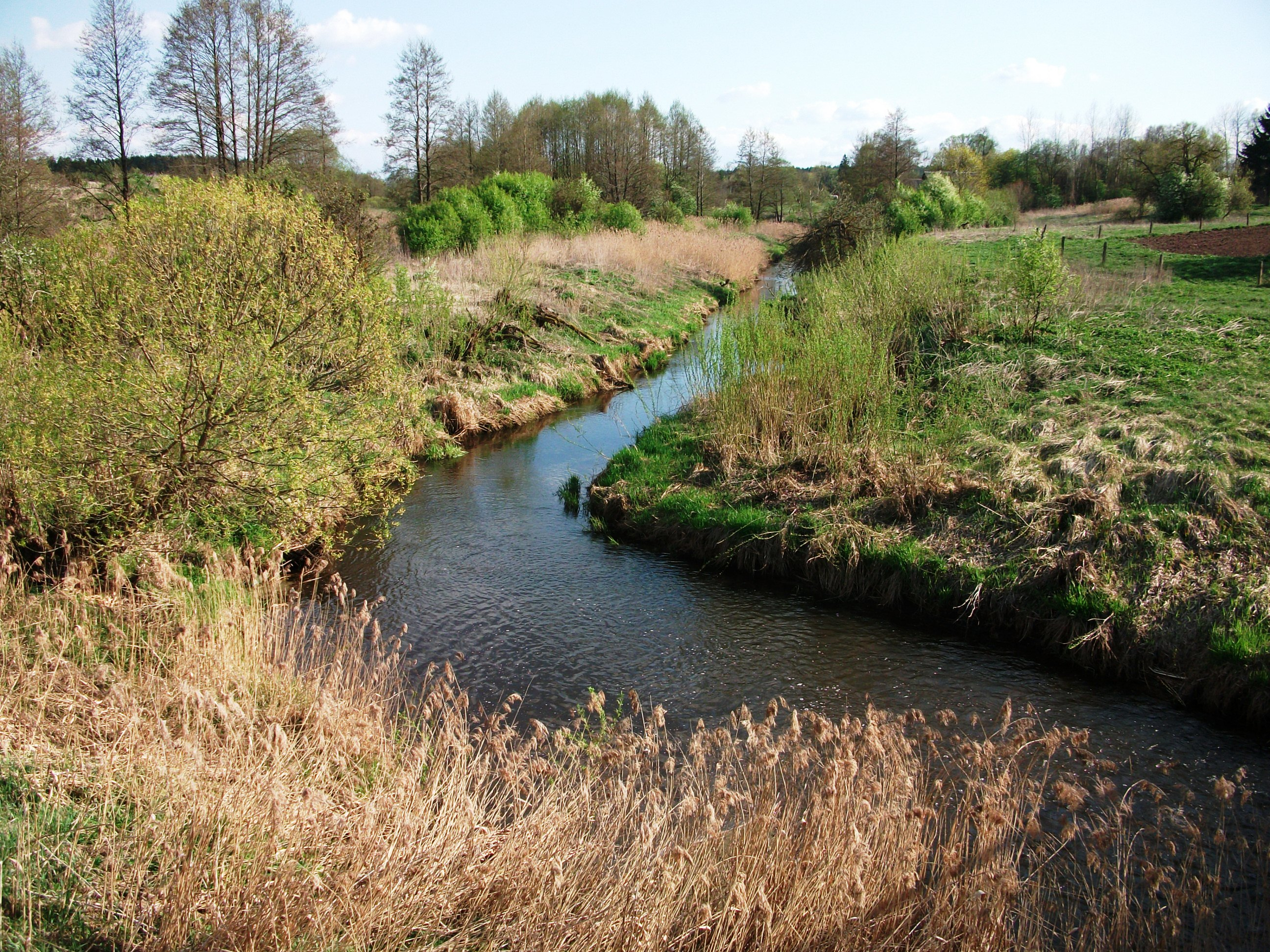 Struna River, Astravyets district, Belarus